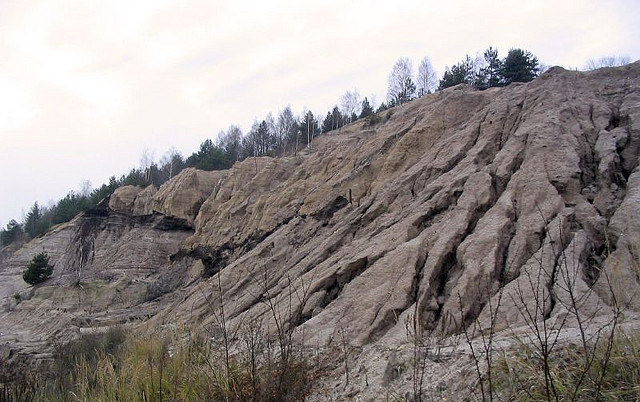 erosion, rain